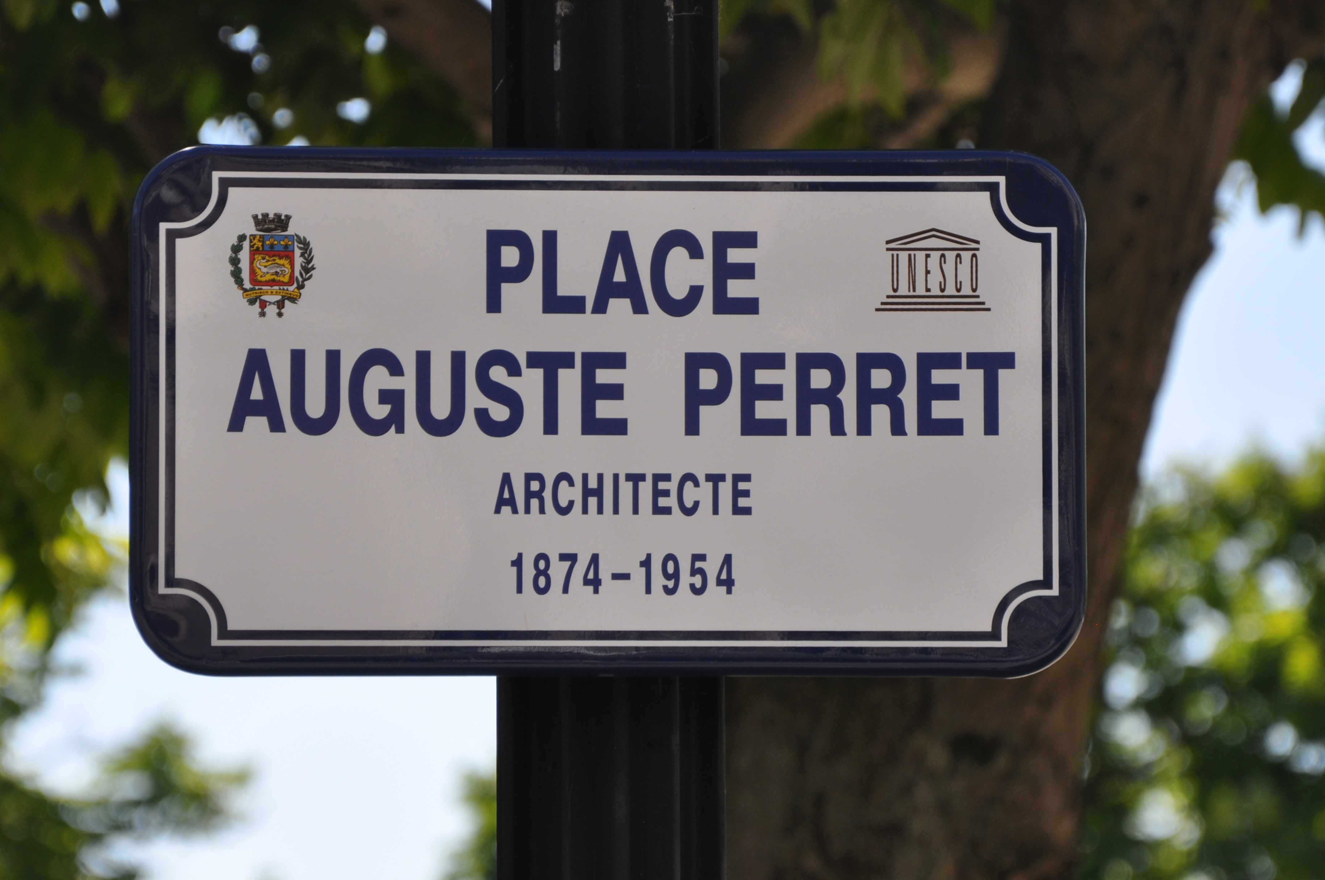 Plaque in square Perret, Le Havre (France, Normandy)